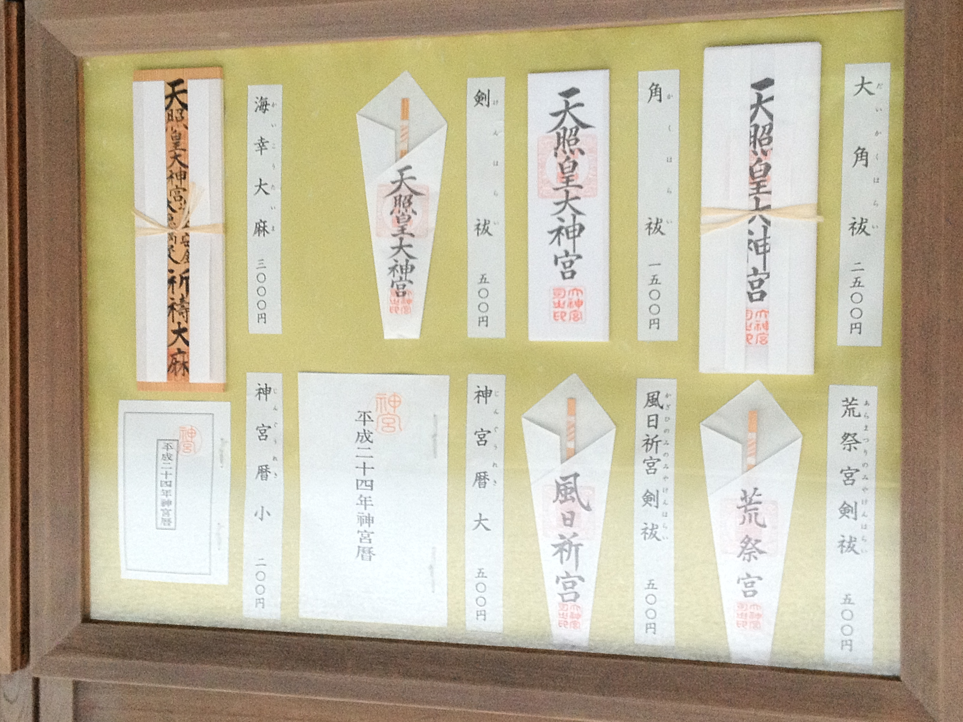 List of Jingu Taima in Naiku of Ise Grand Shrine.